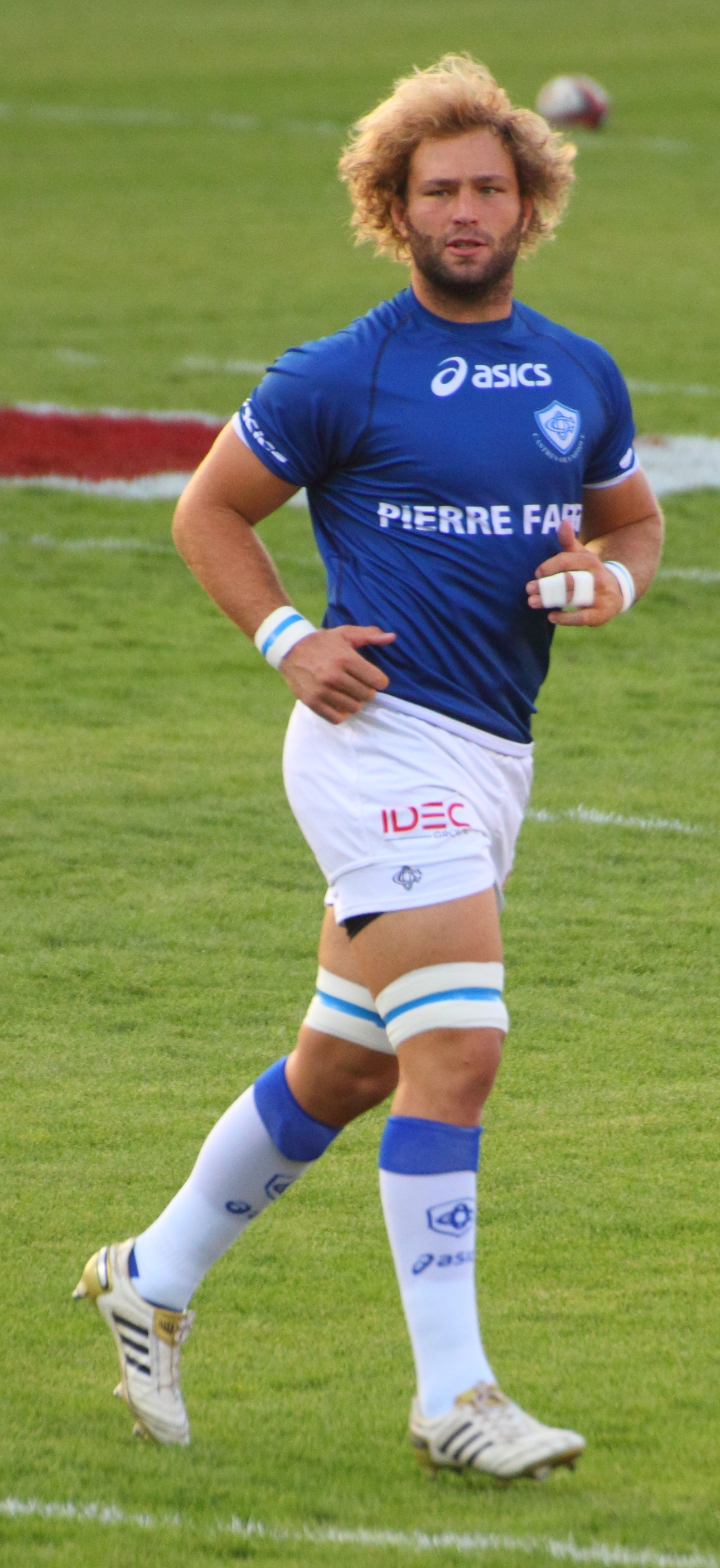 Top 14 — 17 August 2012, Stade Ernest-Wallon. Match between: Stade toulousain — Castres olympique